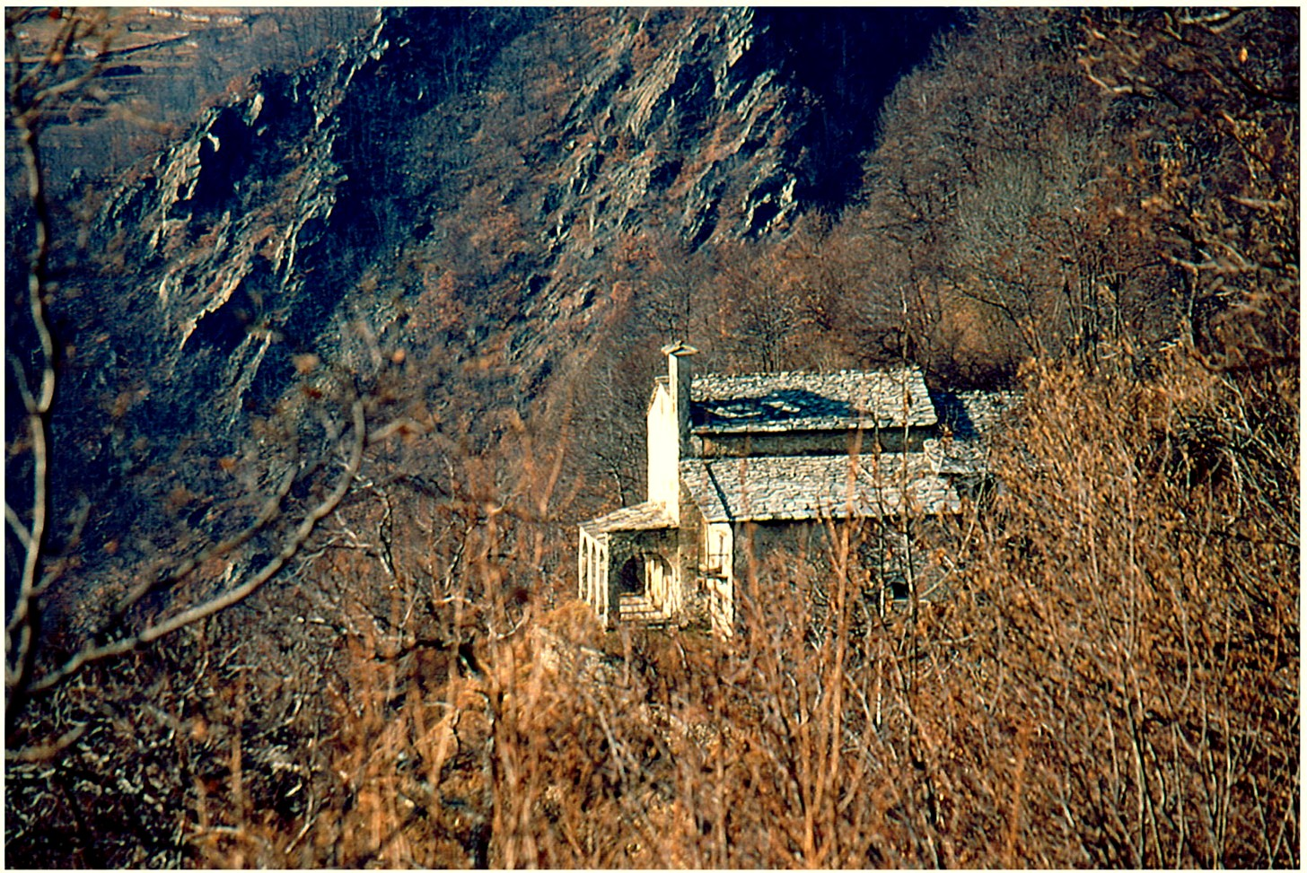 church in Albra